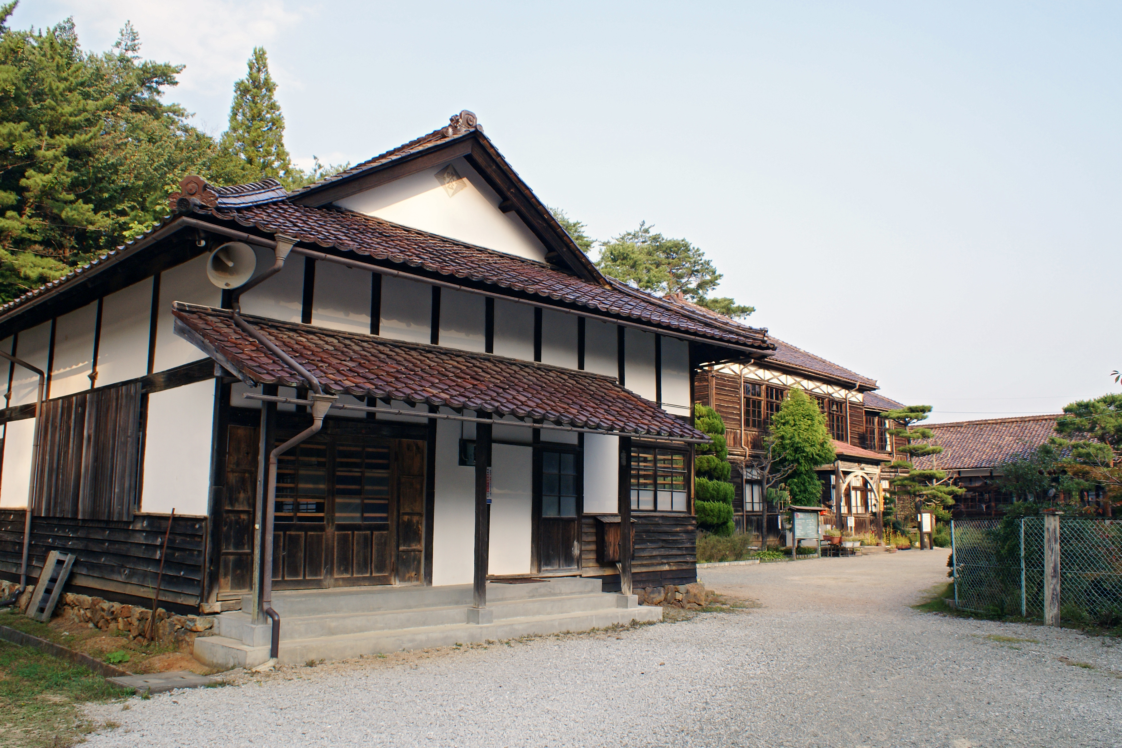 Fukiya elementary school, Fukiya, Takahashi, Okayama prefecture, Japan